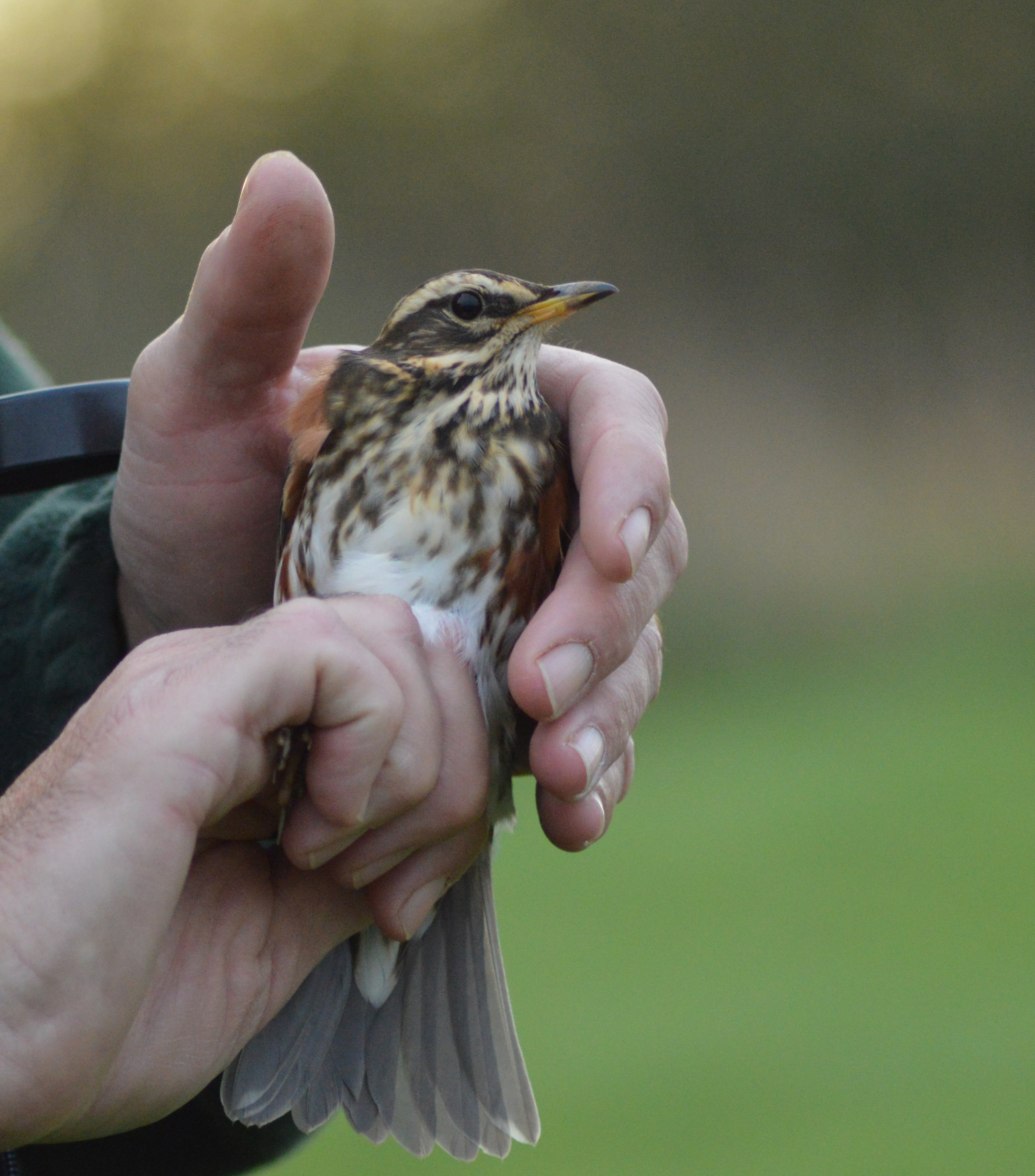 Taken and Ringed at pitsford, On sat there was a modest ringing session at Pitsford Res utilising the Old Scaldwell Road feeding station produced a nice variety of birds including quite a few Goldfinches and Greenfinches, a Redwing and an adult male Lesser Redpoll. But it also conjured up all the usual stuff to!! On Sunday there was a little ringing at Kelmarsh Hall this morning resulted in 36 birds being captured in a single net, the highlights being a Goldcrest, a Marsh Tit and 12 Goldfinches. But again conjured up all the usual stuff again!! The redwing is most commonly encountered as a winter bird and is the UK's smallest true thrush. Its creamy strip above the eye and orange-red flank patches make it distinctive. They roam across the UK's countryside, feeding in fields and hedgerows, rarely visiting gardens, except in the coldest weather when snow covers the fields. Only a few pairs nest in the UK. Status: Red Population: Breeding: 2-17 pairs Wintering: 685,000 birds